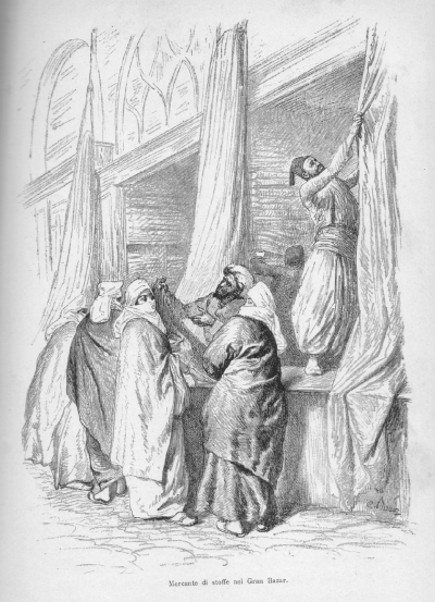 Biseo's drawing from De Amicis book "Costantinopoli", c. 1878